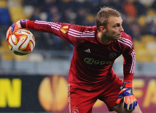 Jasper Cillessen